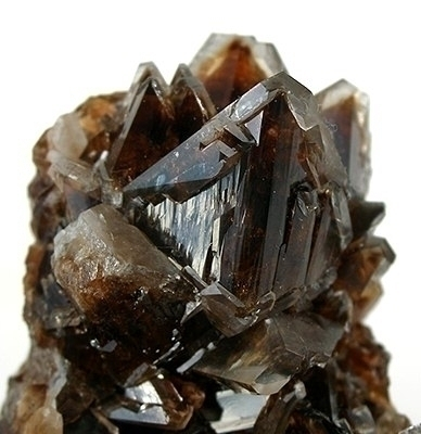 Colemanite Locality: Kestelek Mine, Mustafa Kemalpafla, Bursa Province, Marmara Region, Turkey (Locality at ) Size: 5.5 x 5.1 x 4.4 cm. Sharp crystals to 2 cm make this the most dramatic example for the find from late 2005, because this is the largest crystal I know of to date. The twinning is sharp and well-developed, much more easily visible because of the size of the crystal. Three other large crystals, to over 1 cm, flank the big one's rear. I like the look of it as a castle or mountain with smaller peaks winding elegantly down the center-right of the piece. From the collector’s point of view, they are unusually pretty as previous colemanites have generally been white to chalky in color, with few exceptions as a rule. Moreover, and even more interesting, these specimens are composed of twinned crystals which have really sharp and interesting intersections resulting in complex crystallography. Lastly, they fluoresce in an interesting pattern with yellow or white zones at those intersections.